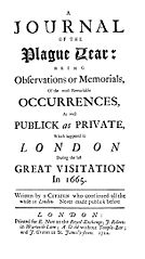 his journal